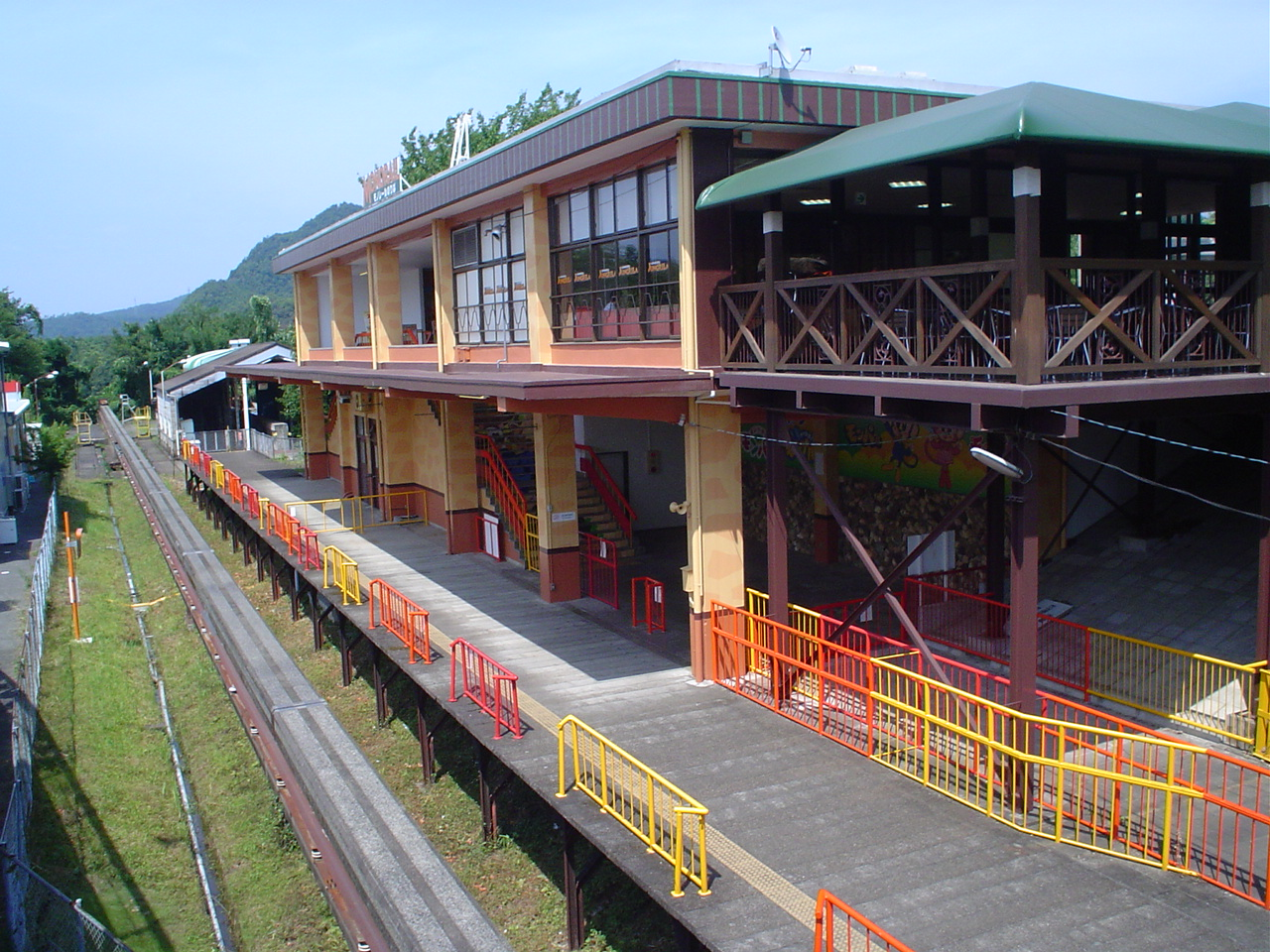 Monkey Park Monorail Line - Dōbutsuen Station